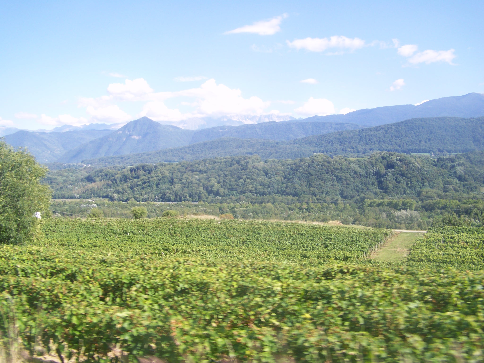 Vineyards of Savoie in Cruet, France.